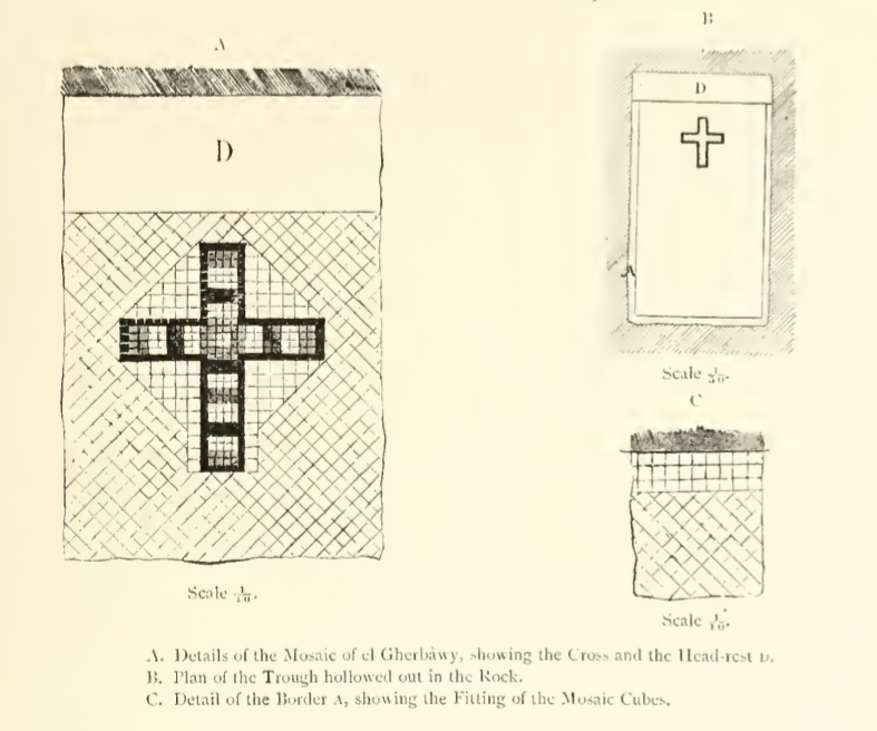 Al-Midya, Palestine